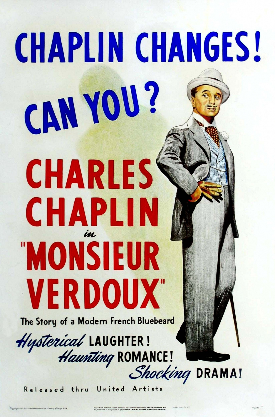 Original poster for the Charlie Chaplin film Monsieur Verdoux